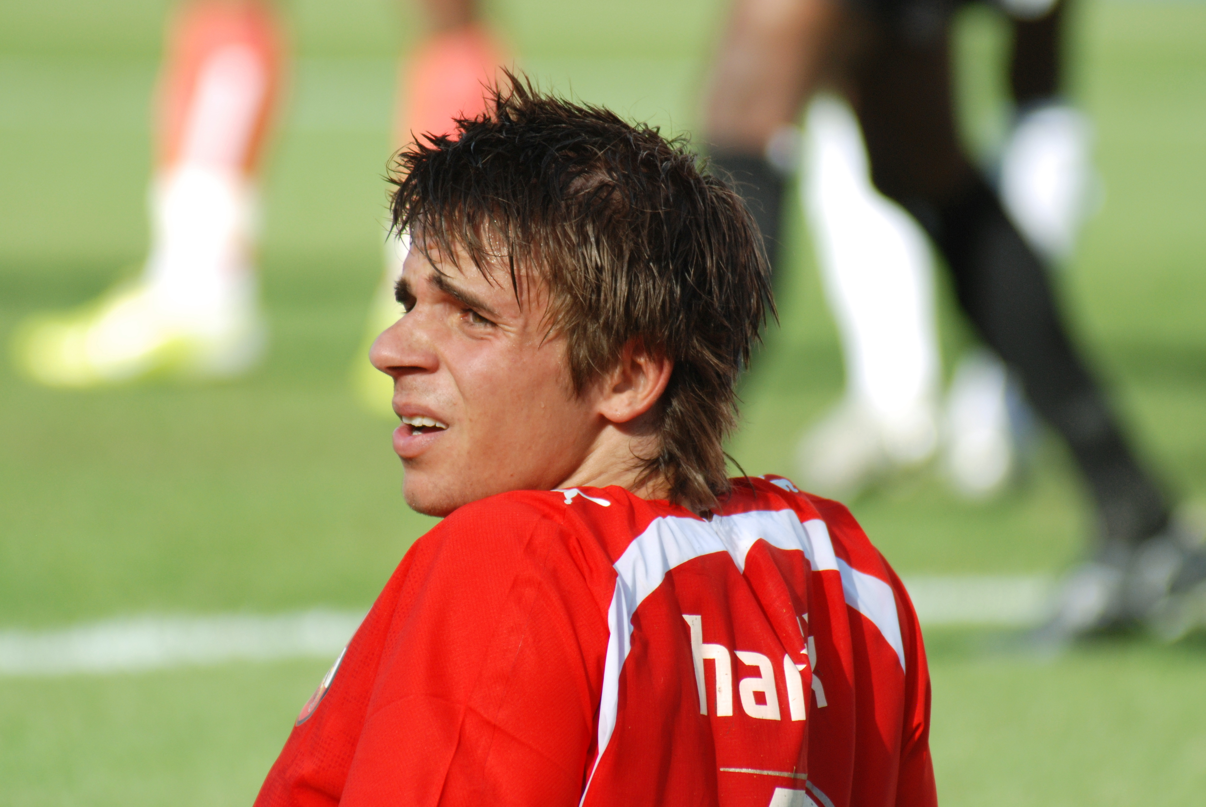 Austrian Striker Martin Harnik sitting on the pitch during the round of 16 match between Austria and Gambia at the 2007 FIFA U-20 World Cup, played at Commonwealth Stadium, Edmonton, Alberta, Canada.